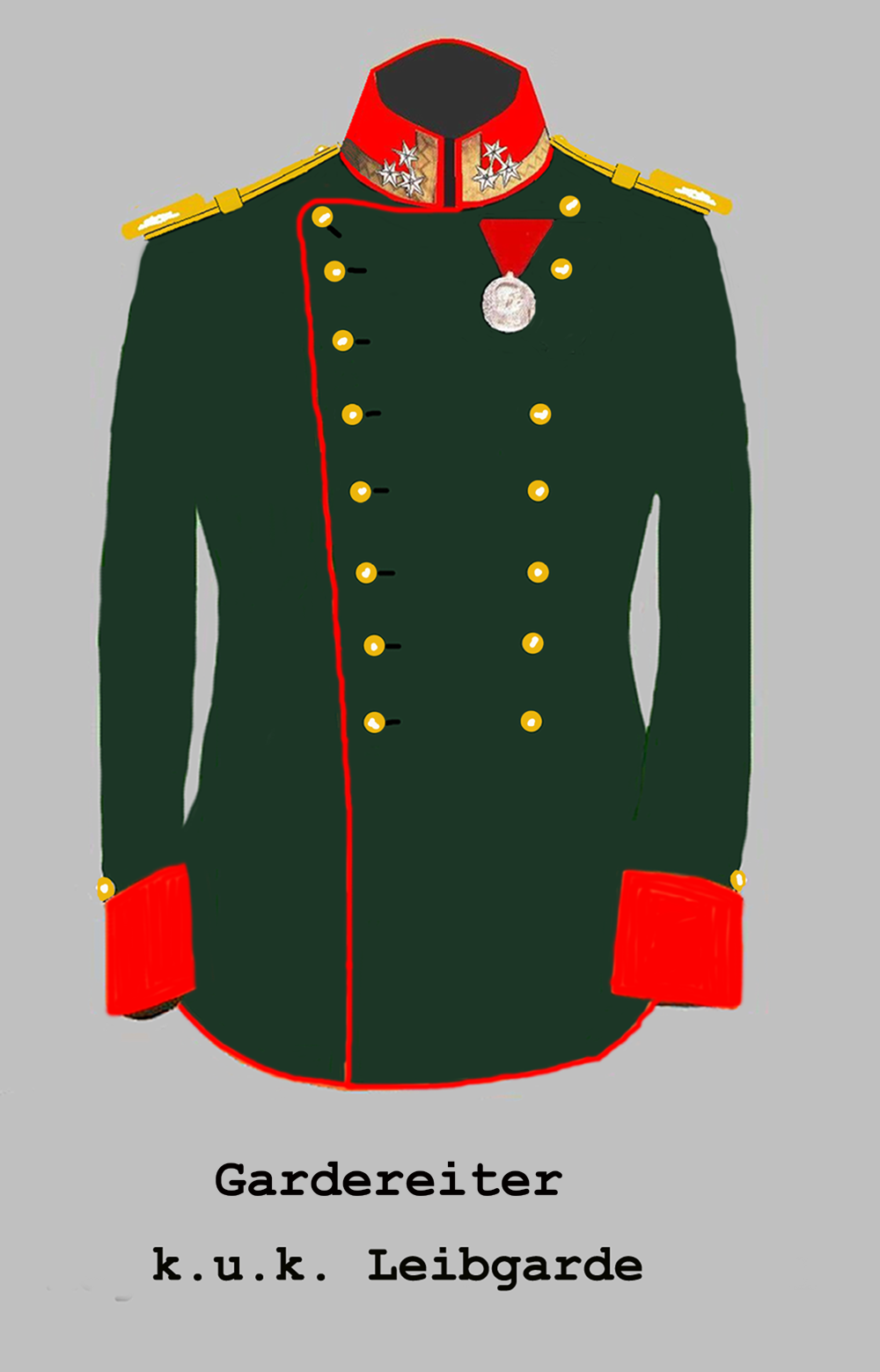 Trooper, imperial austria-hungarian Lifeguards, infantry and cavalry with same tunic